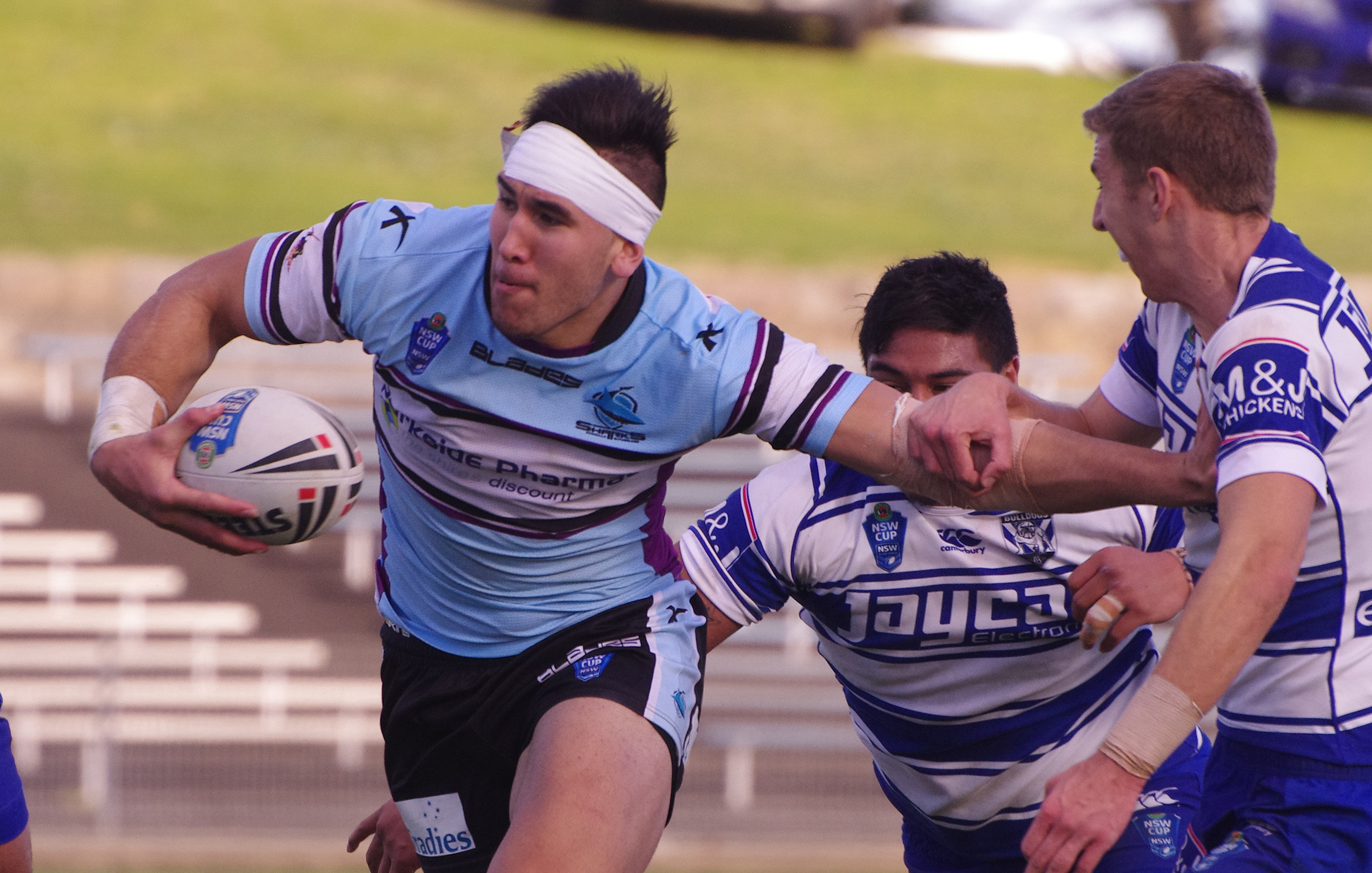 Nelson Asofa-Solomona